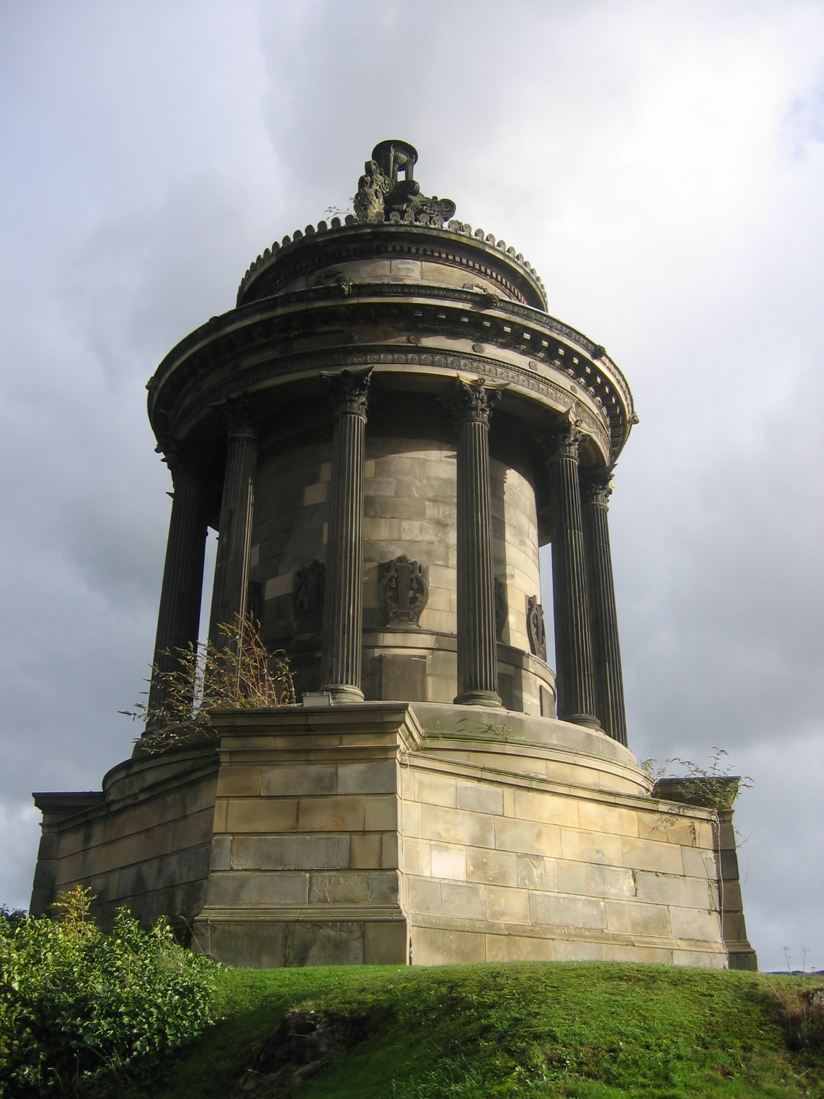 The Robert Burns Monument, Calton Hill, Edinburgh